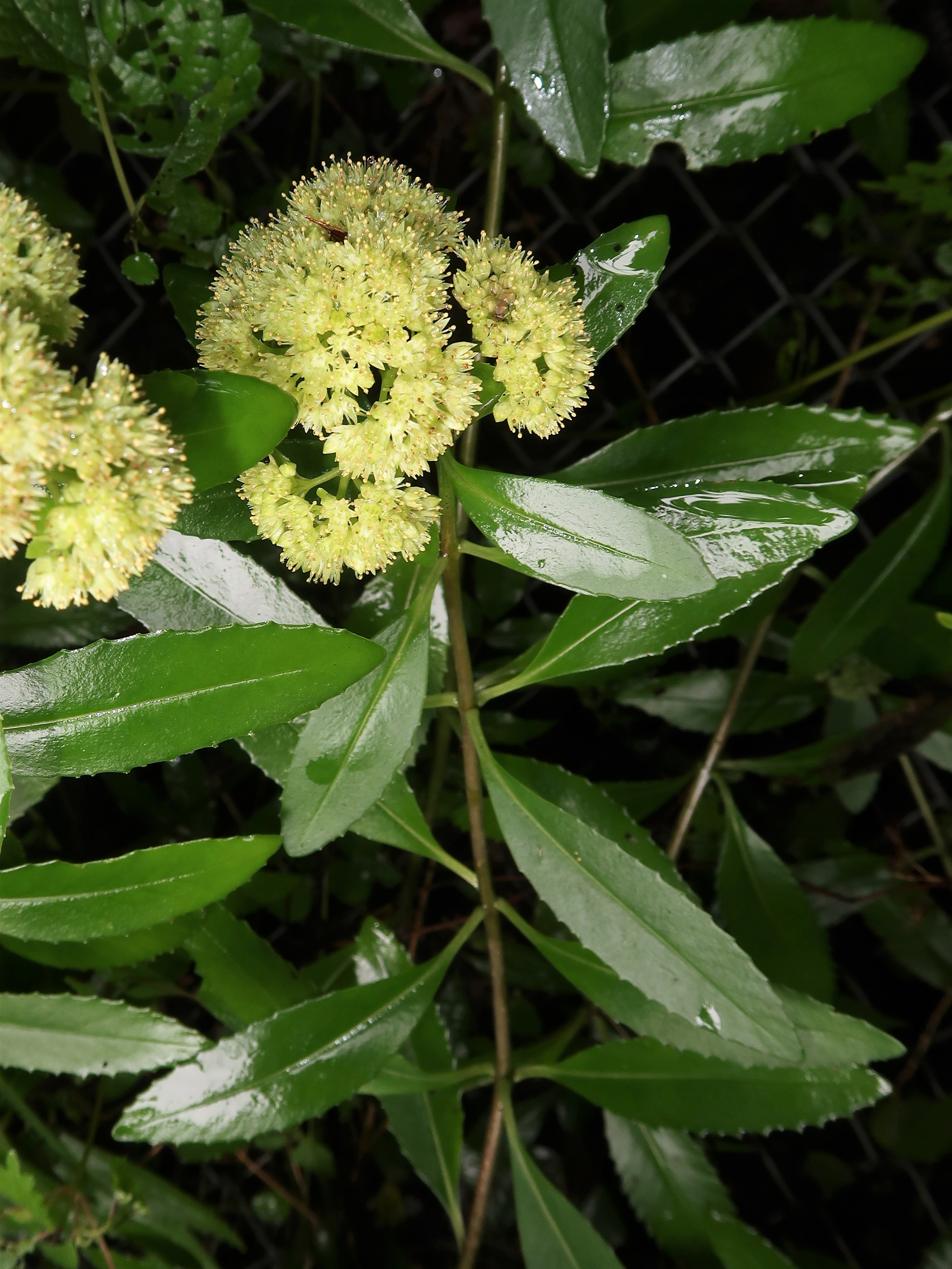 Hylotelephium verticillatum, Hama-dori area, Fukushima pref., Japan